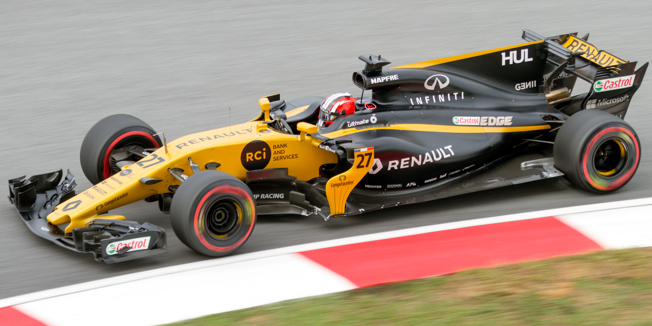 Formula One 2017 Rd.15 Malaysian GP: Nico Hülkenberg (Renault)